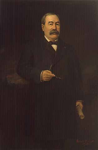 Oil painting of Minnesota Governor Samuel Van Sant. Painter: Herbert Conner (1851-1933) Art Collection, Oil 1905 Location no. AV1996.9.16 Negative no. 85120